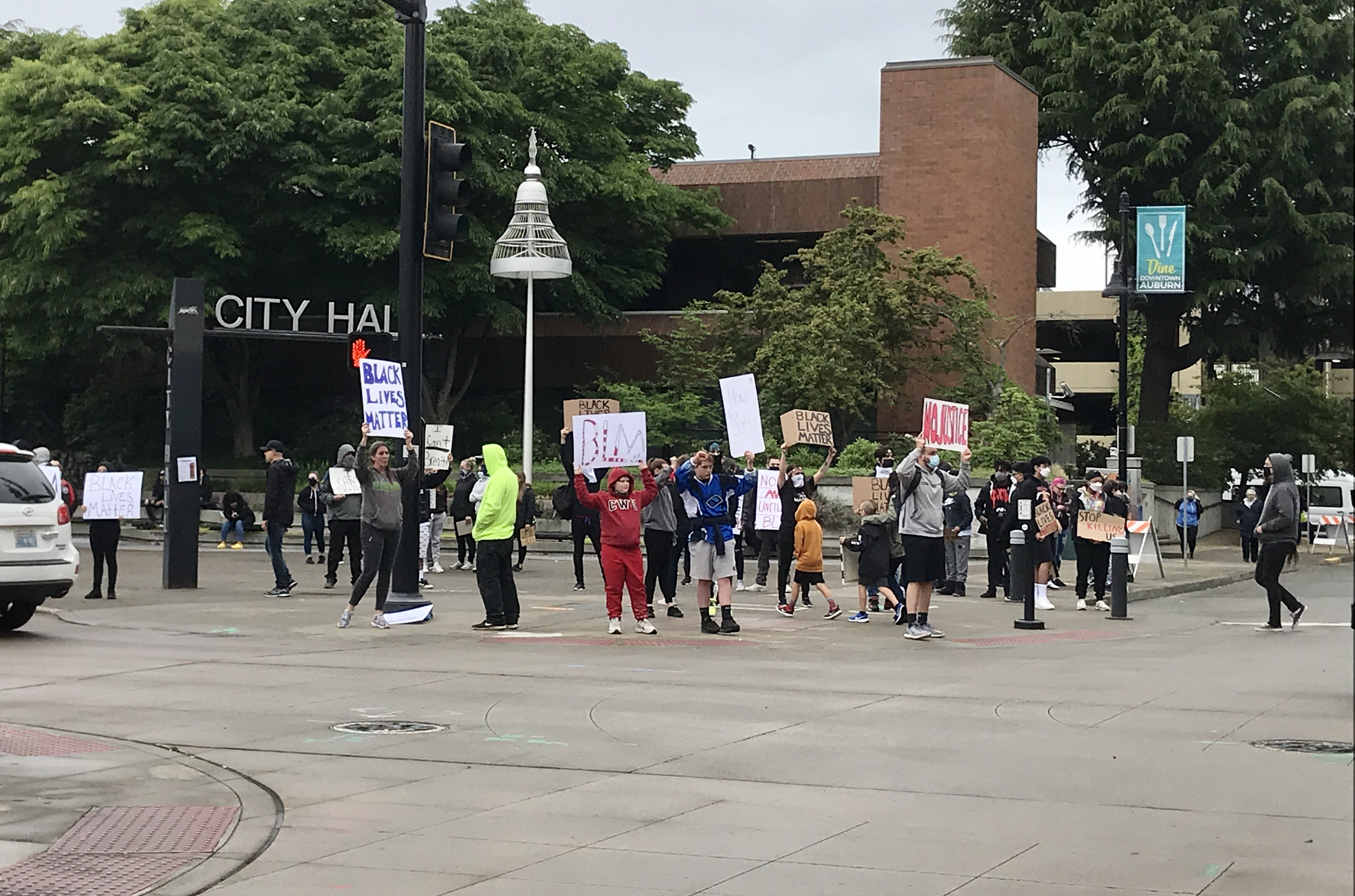 2020-06-02 Aururn WA BLM Protest